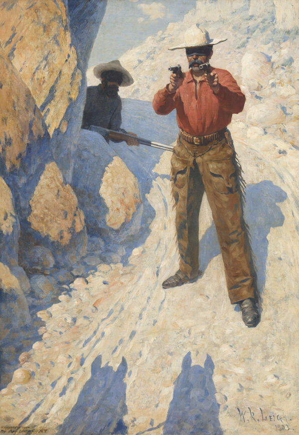 William R. Leigh (1866-1955), The Hold Up (The Ambush), 1903, Oil on canvas, Sid Richardson Museum, Fort Worth, Texas (